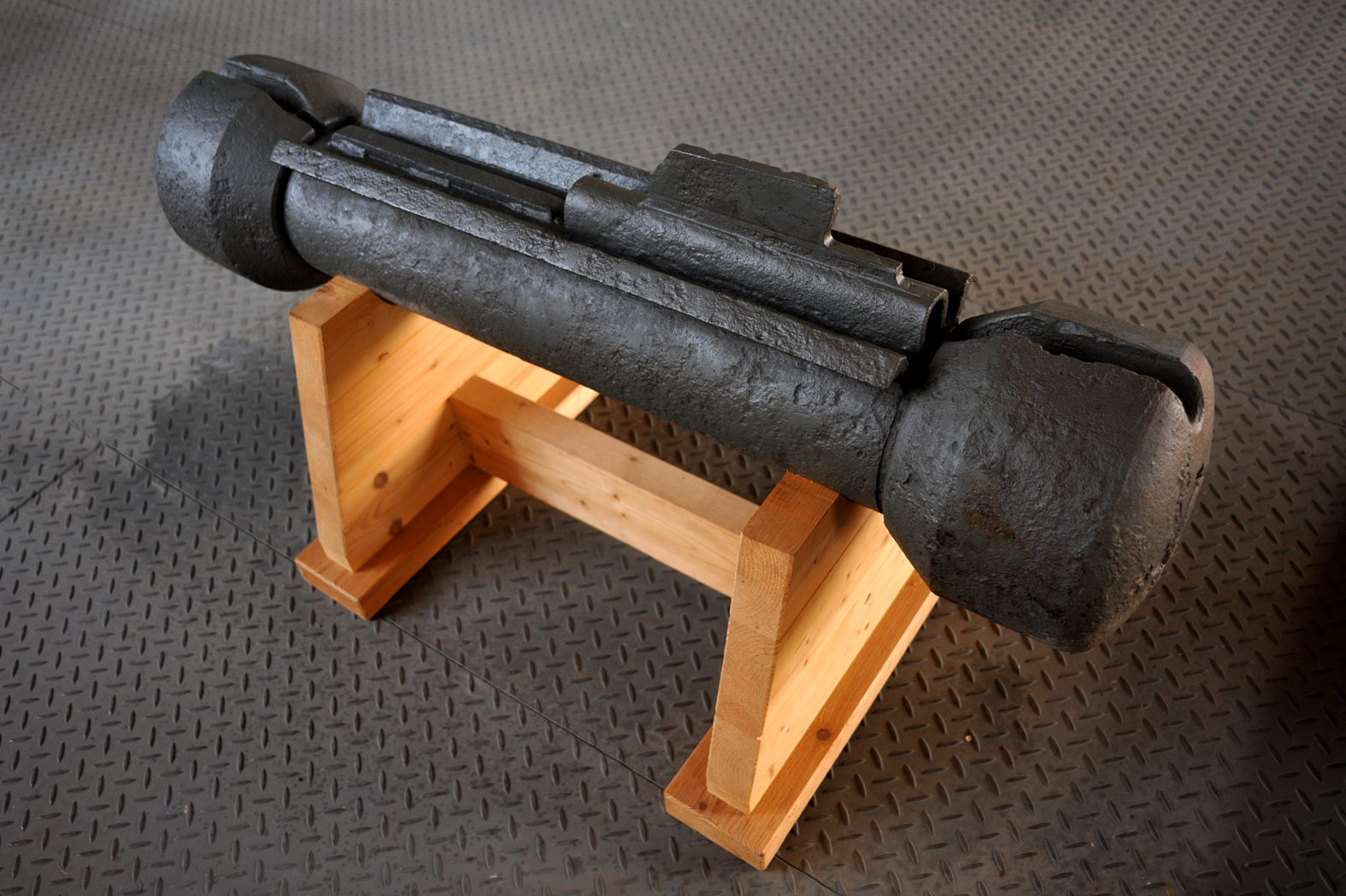 Fieseler Fi 103, Schweizerisches Militärmuseum Full; Aargau, Switzerland. Driving piston for the Walter-Schleuder. Visible at the top the hook that was latched at the bottom of the Fi 103.